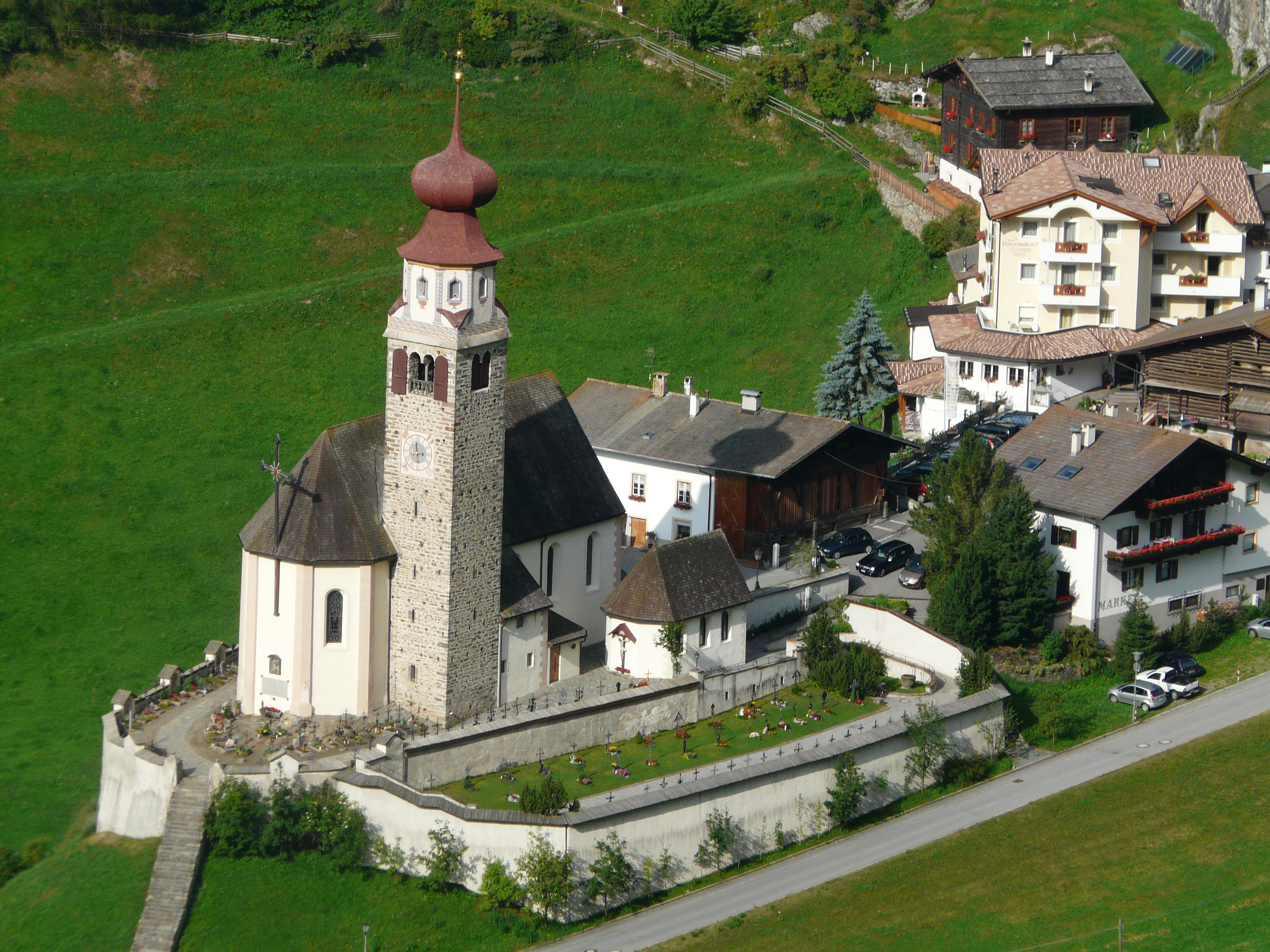 Church of Unser Frau, Schalstal